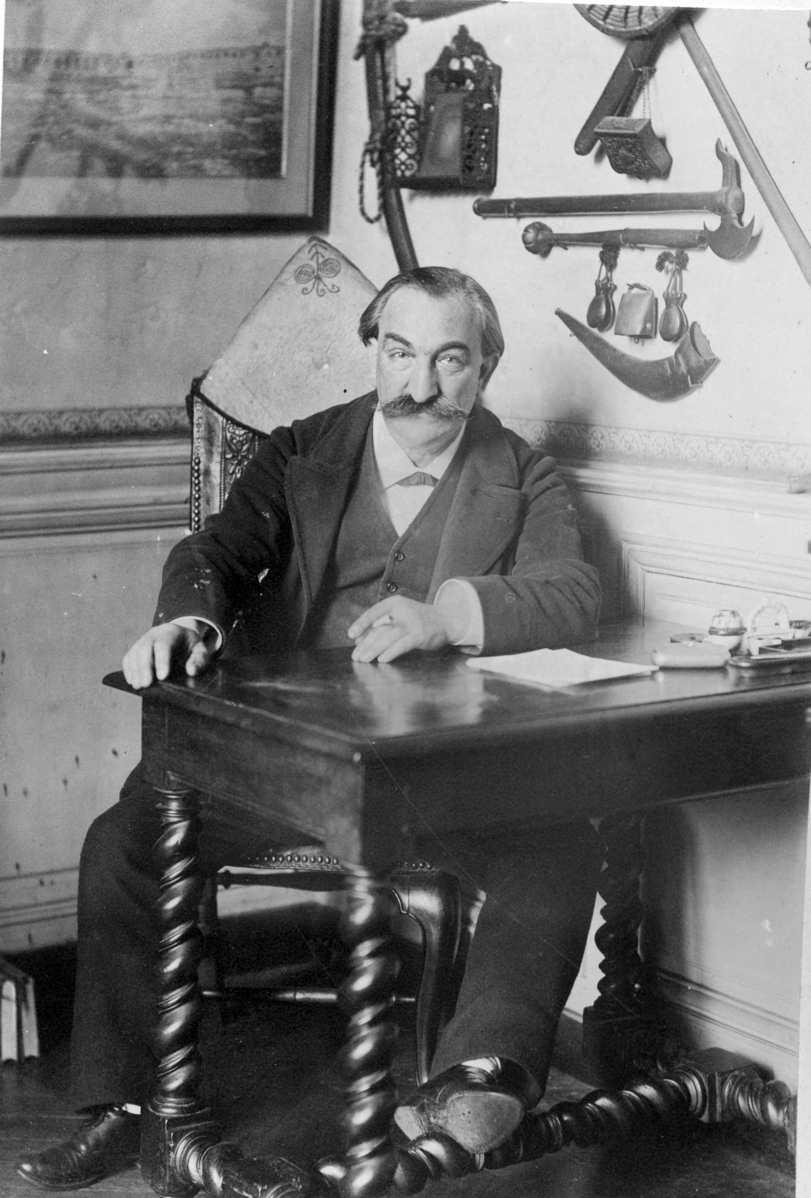 Léon Cahun (1841-1900), writer and librarian of the Bibliothèque Mazarine